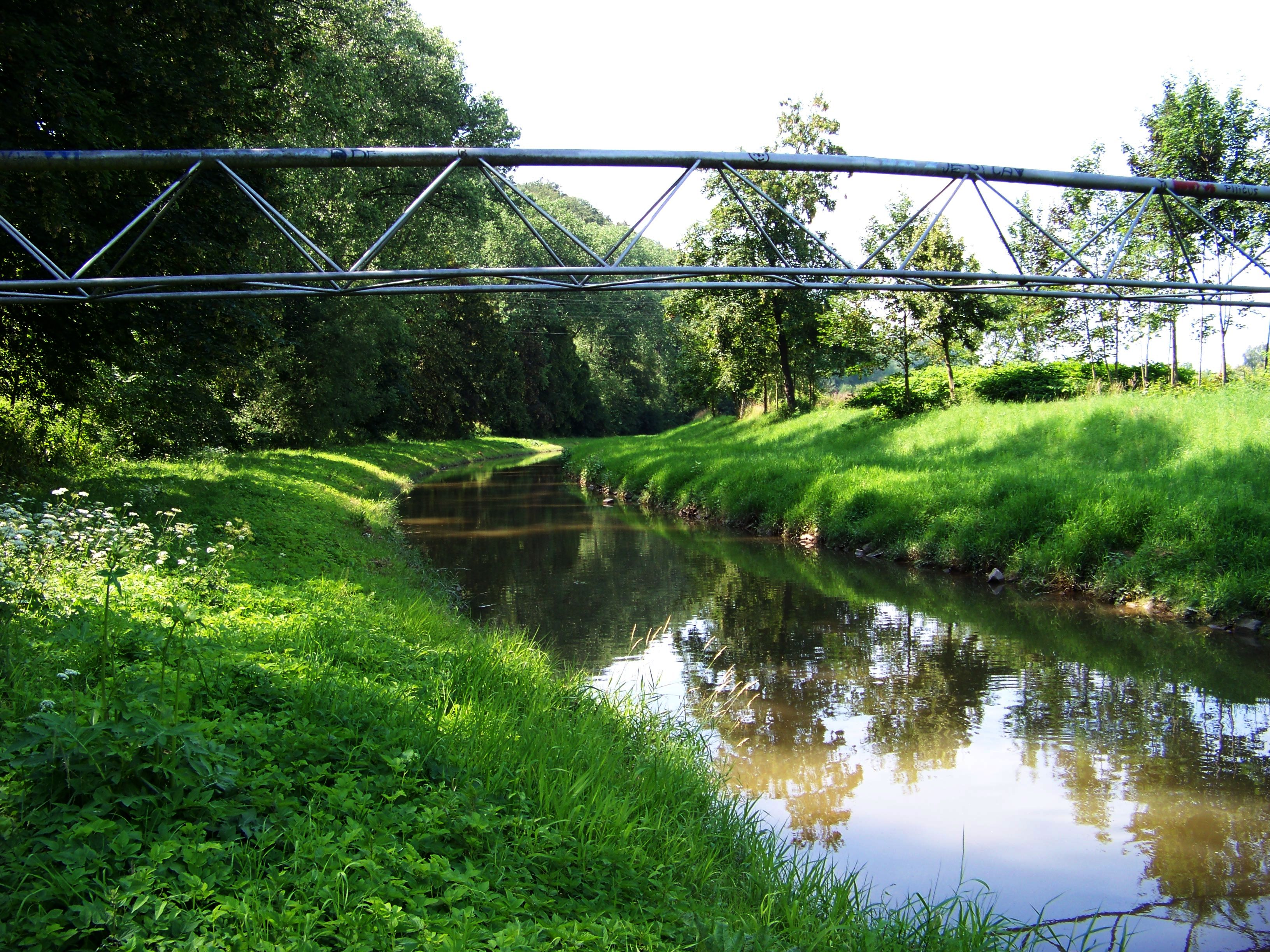 Choceň, Ústí nad Orlicí District, Pardubice Region, the Czech Republic. Tichá Orlice river, a pipeline bridge. - OpenStreetMap(Info)